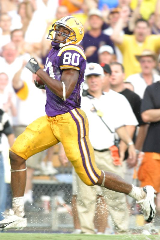 American footballer Dwayne Bowe